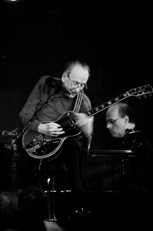 Les Paul Live @ Iridium Jazz Club in New York City in October 2008